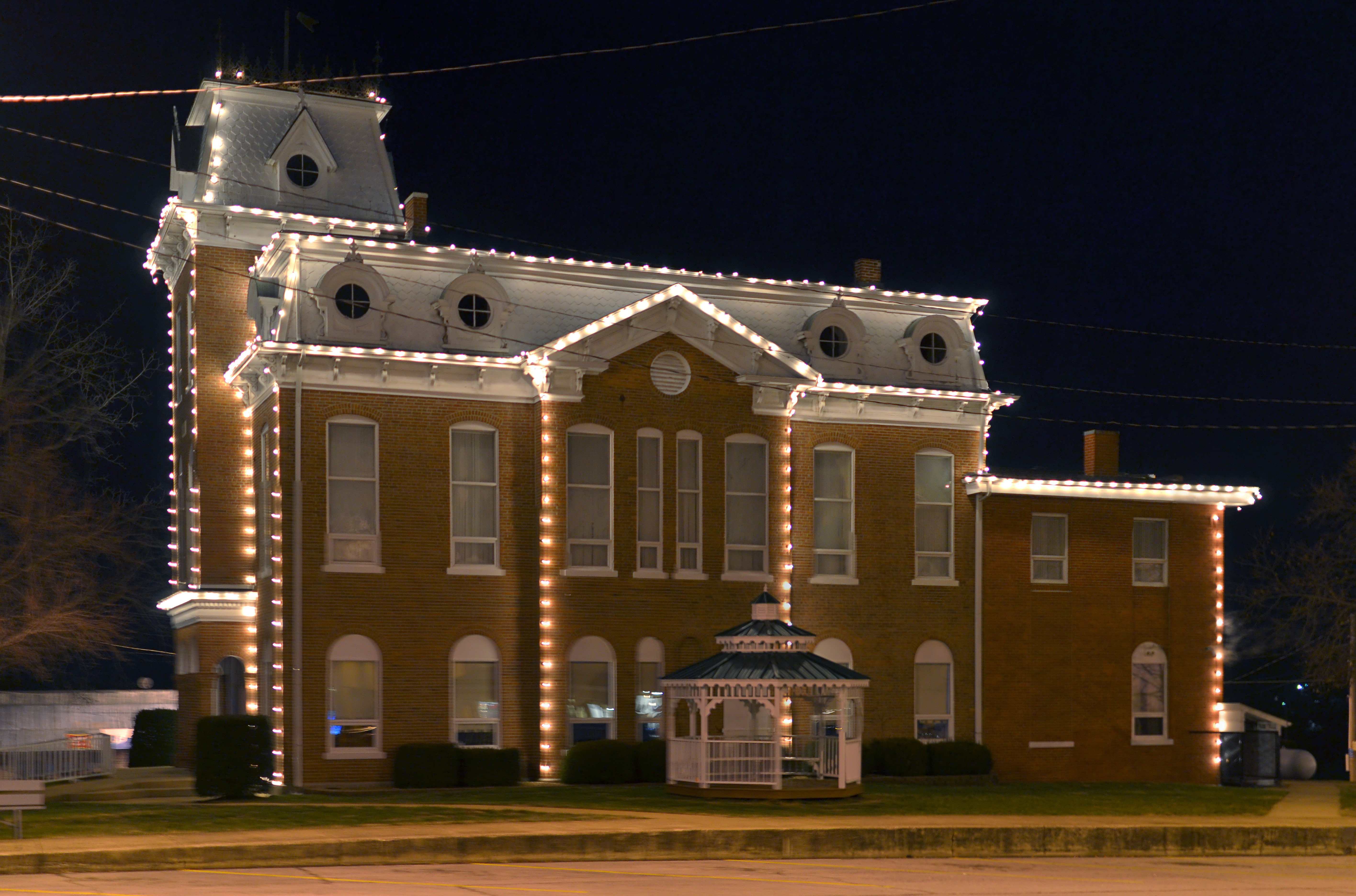 Dent County, Missouri, Courthouse in Salem decorated for Christmas. Side view.